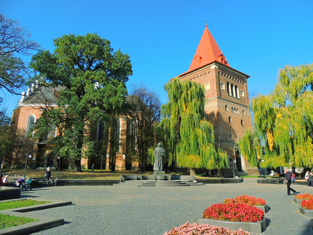 The city centre of Drohobych